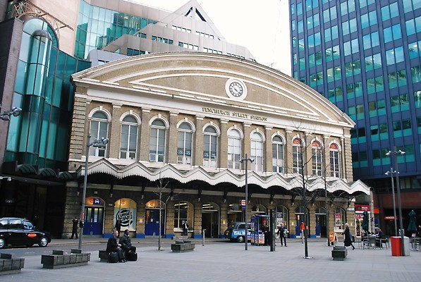 Fenchurch Street station, 03/10.